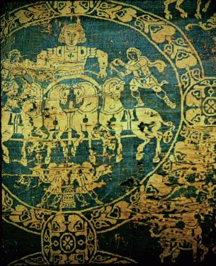 The Shroud of Charlemagne, a polychrome Byzantine silk with a pattern showing a quadriga, 9th century. Paris, musée national du Moyen Âge.